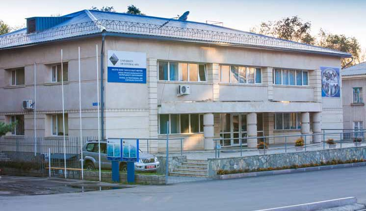 UCA SPCE Schools